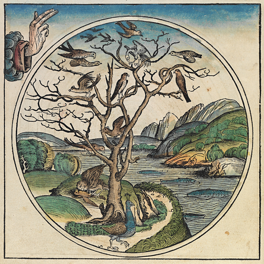 This is a part of a scan of an historical document: Title: Schedelsche Weltchronik or Nuremberg Chronicle